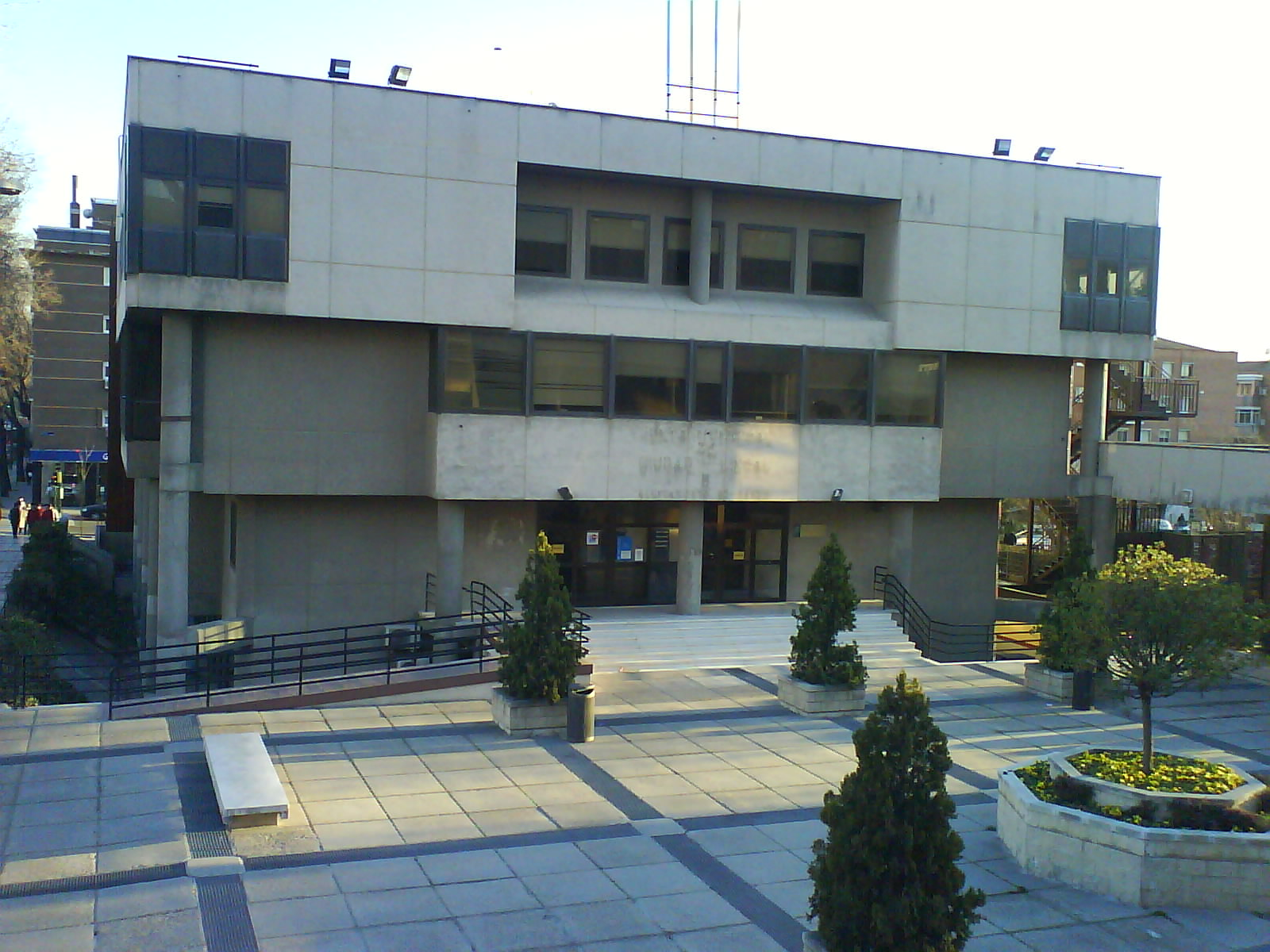 Ciudad Lineal (Madrid) district Junta Municipal.